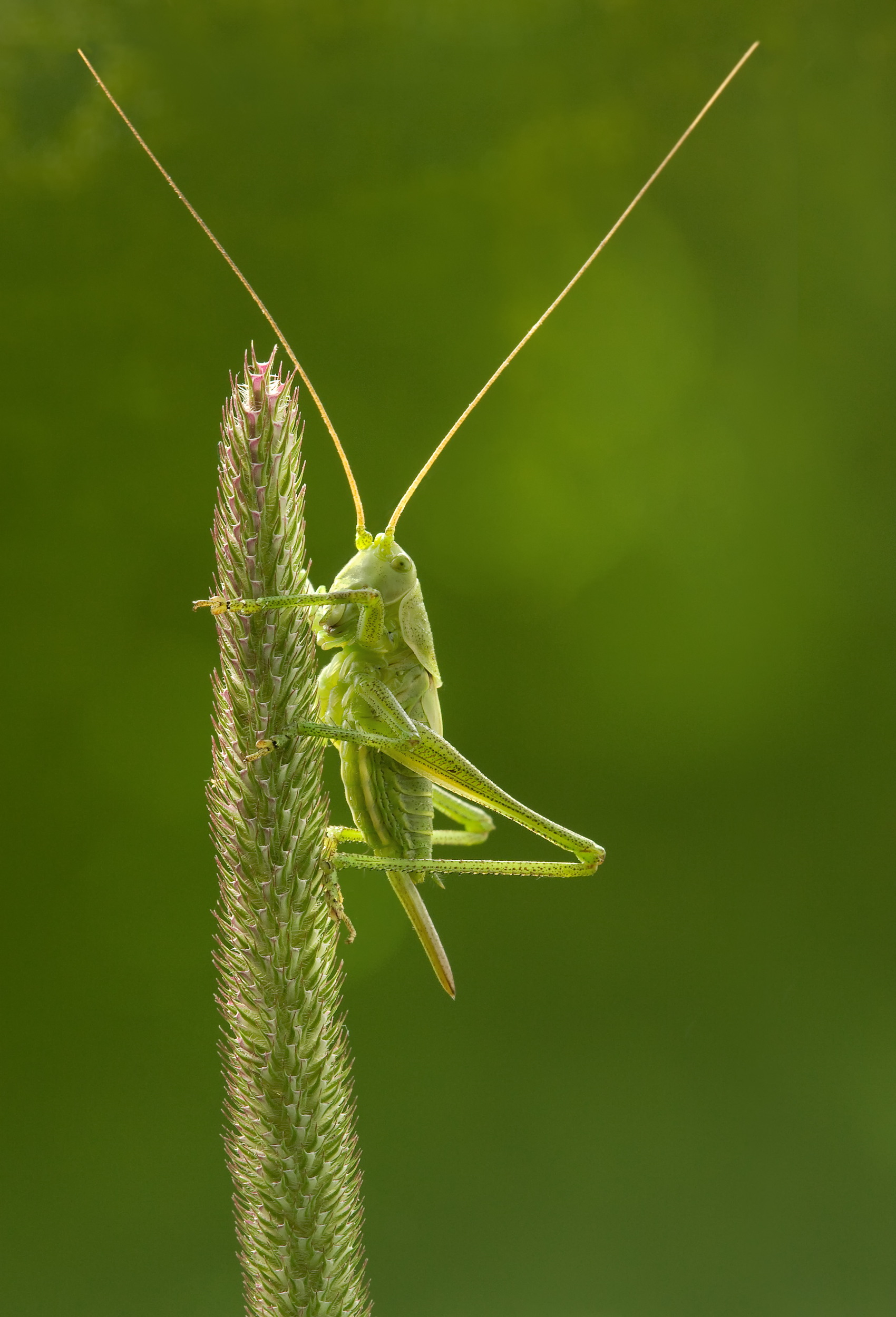 Second (?) stage nymph of the Great Green Bush Cricket (Tettigonia viridissima) on Timothy-grass (Phleum pratense).